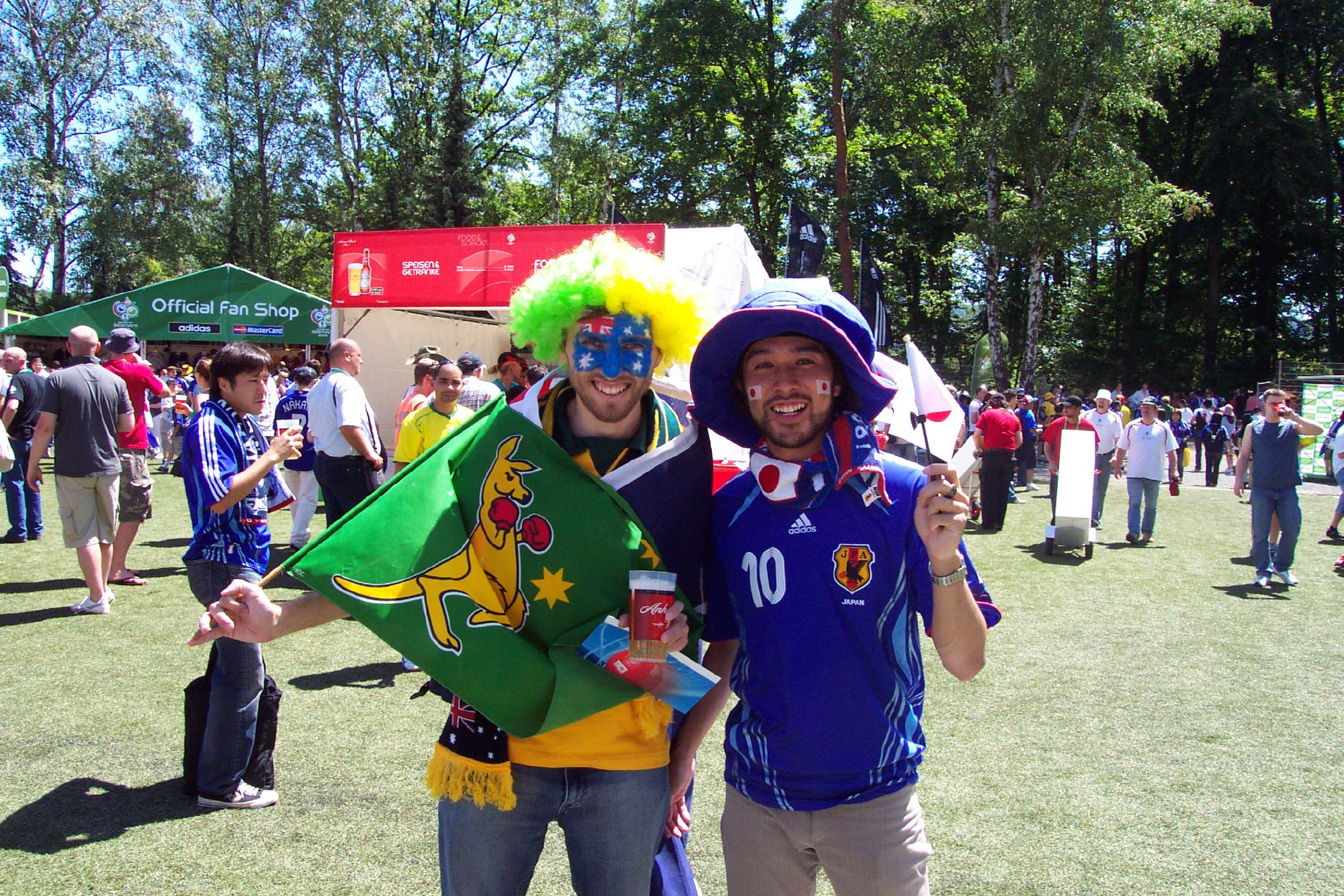 Photographer and a Japanese fan